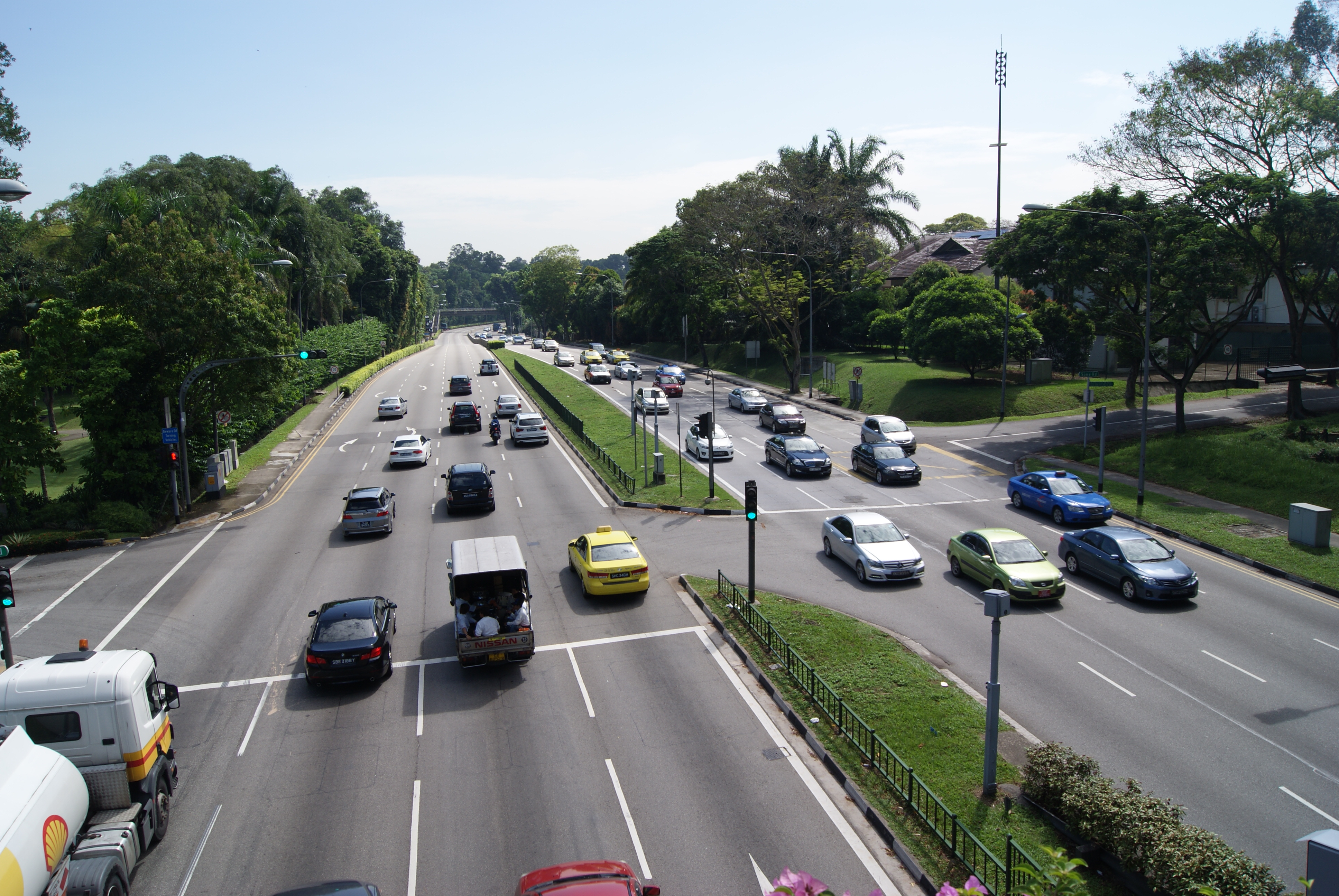 Traffic along Lornie Road, Singapore, photographed from an overhead pedestrian crossing.